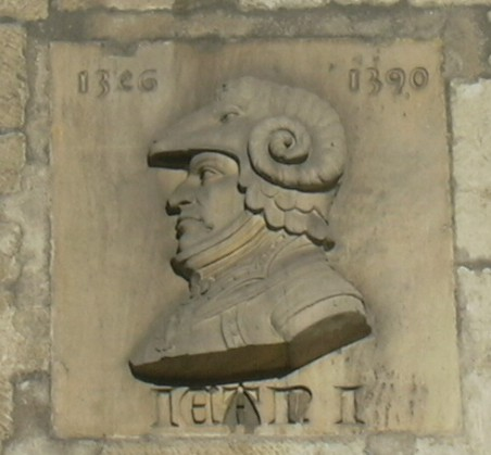 This picture shows Duke of Lorraine John Ist's effigy on Door of The Craffe at Nancy.